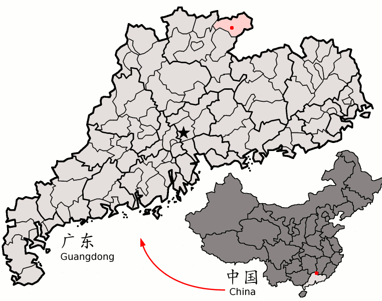 Location of Nanxiong city (red), Nanxiong county (pink) within Guangdong province of China